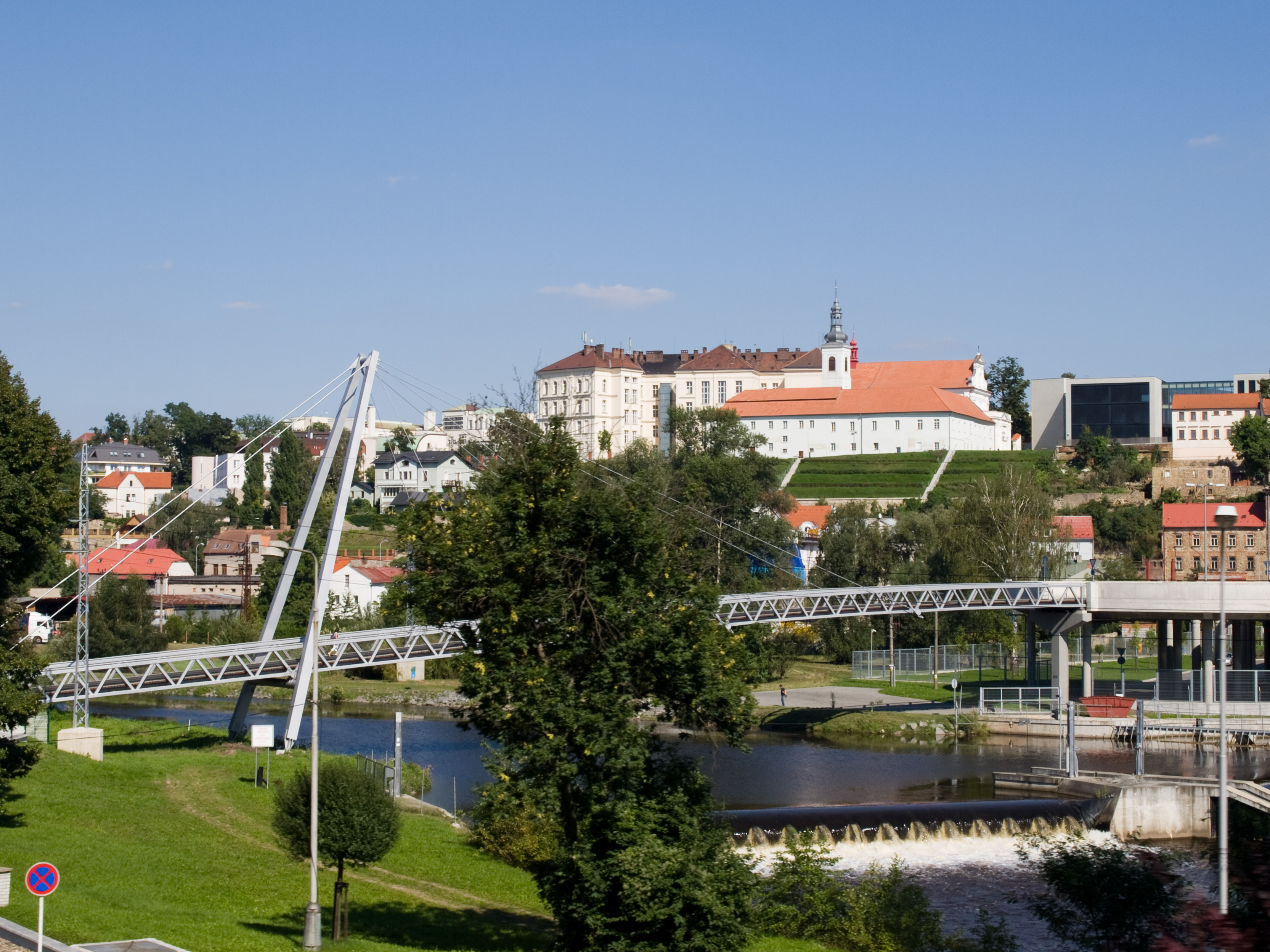 Bridge, Mladá Boleslav